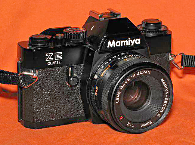 Mamiya ZE: 35mm single-lens reflex camera from the 1980ies